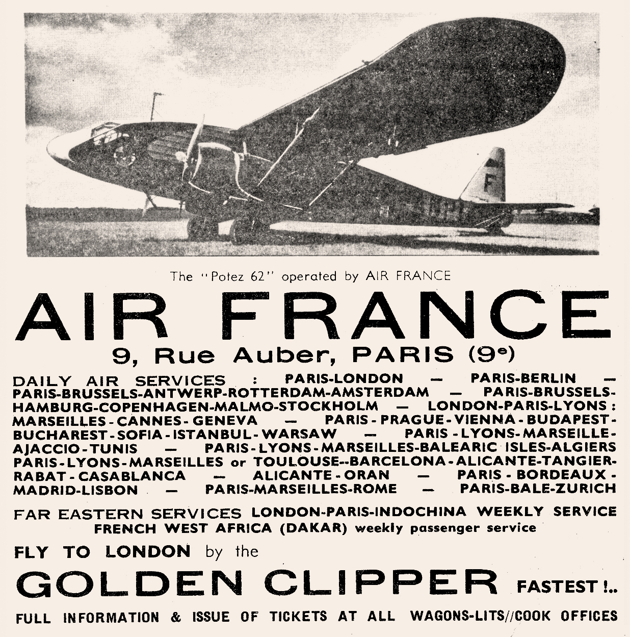 1936 advertisement for Air France services on Potez 62 aircraft